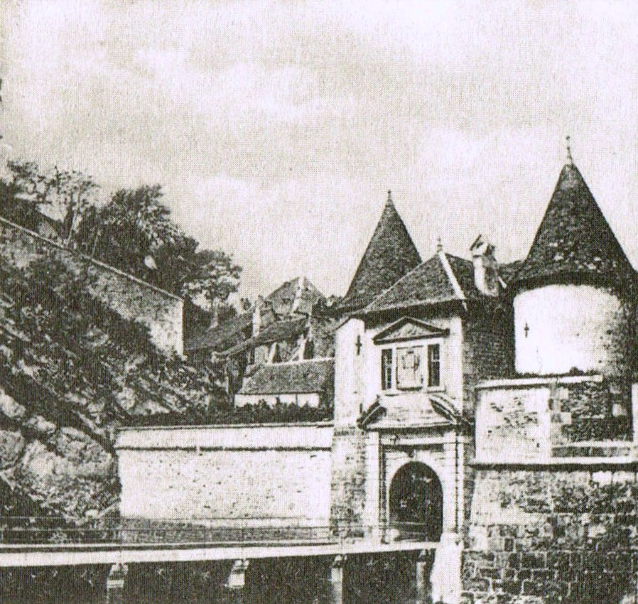 Rivotte door, in the beginning of XXe century. She's located in Besançon (Doubs, France)